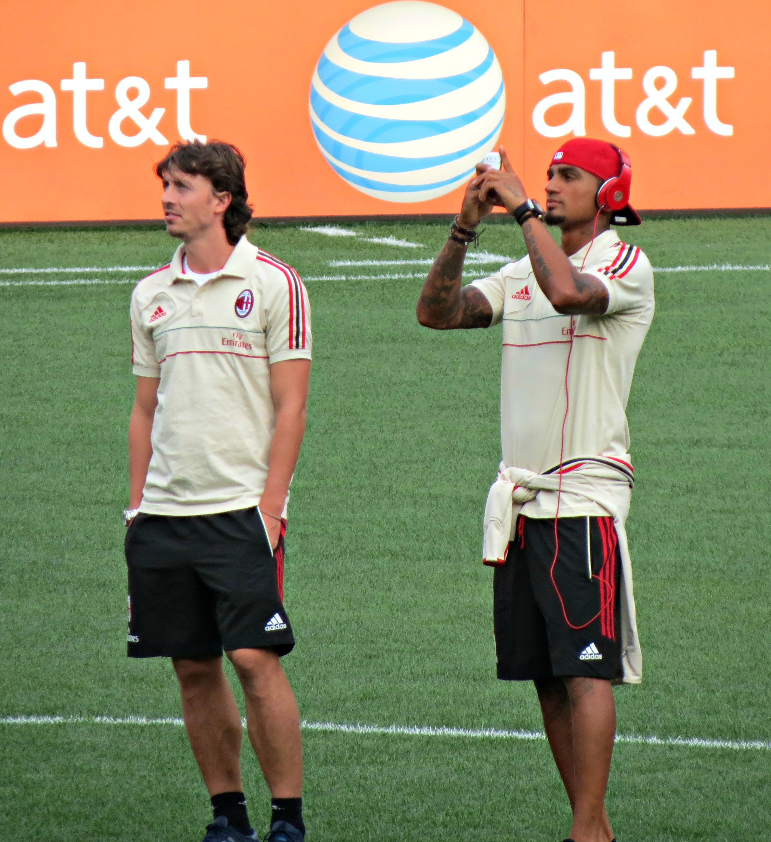 Kevin-Prince Boateng (left) of AC Milan.